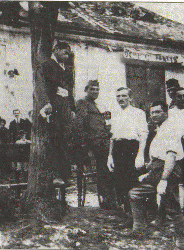 A victim of Hungary's White Terror in 1919.